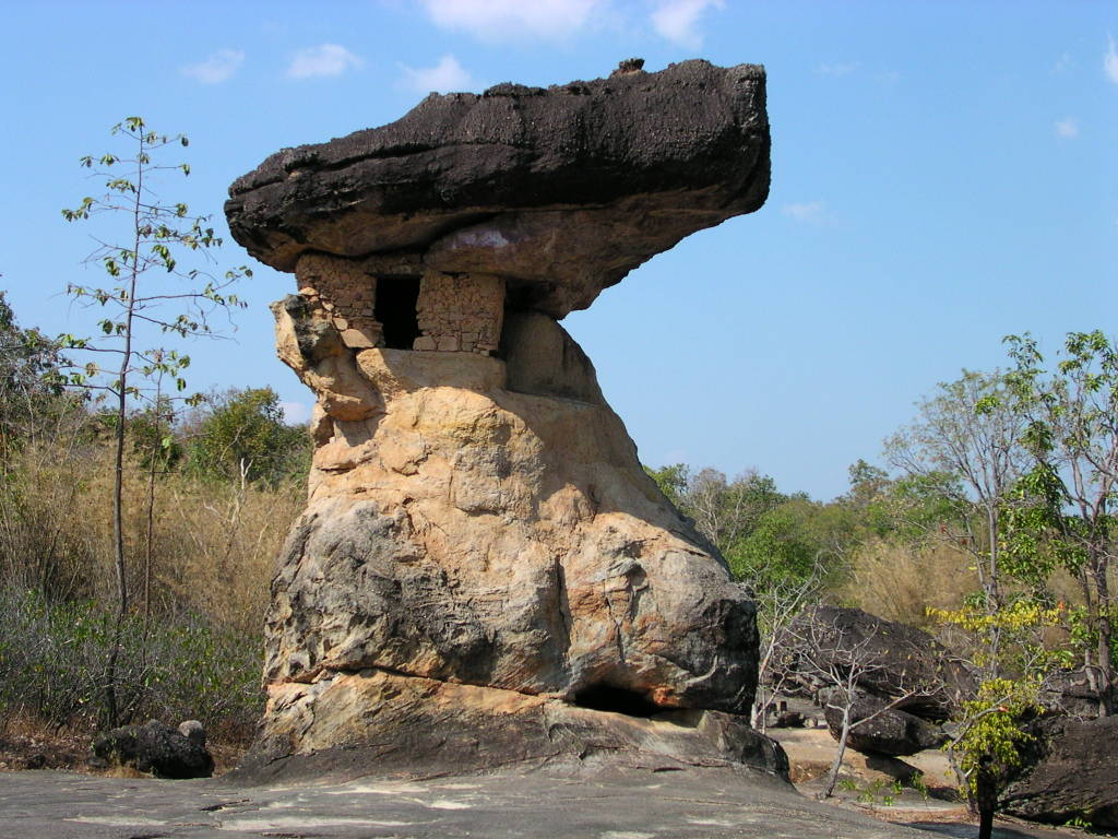 Rock formation in Phu Phra Bat